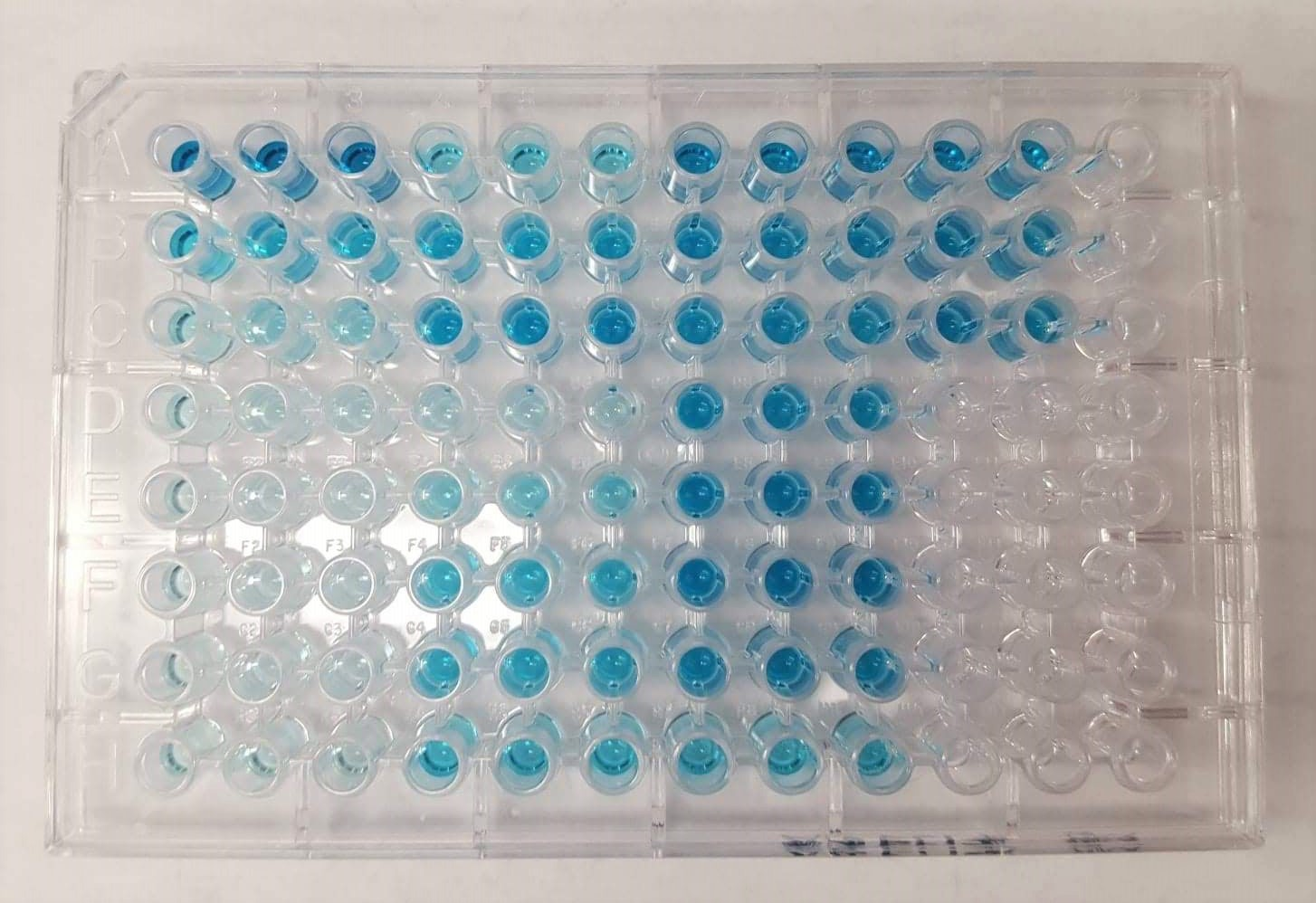 An ELISA (enzyme-linked immunosorbent assay) on a half-volume 96-well plate developed with a horseradish peroxidase secondary antibody and the colorimetric substrate TMB (3, 3', 5, 5'-tetramethylbenzidine) which reacts with the HRP to turn blue.